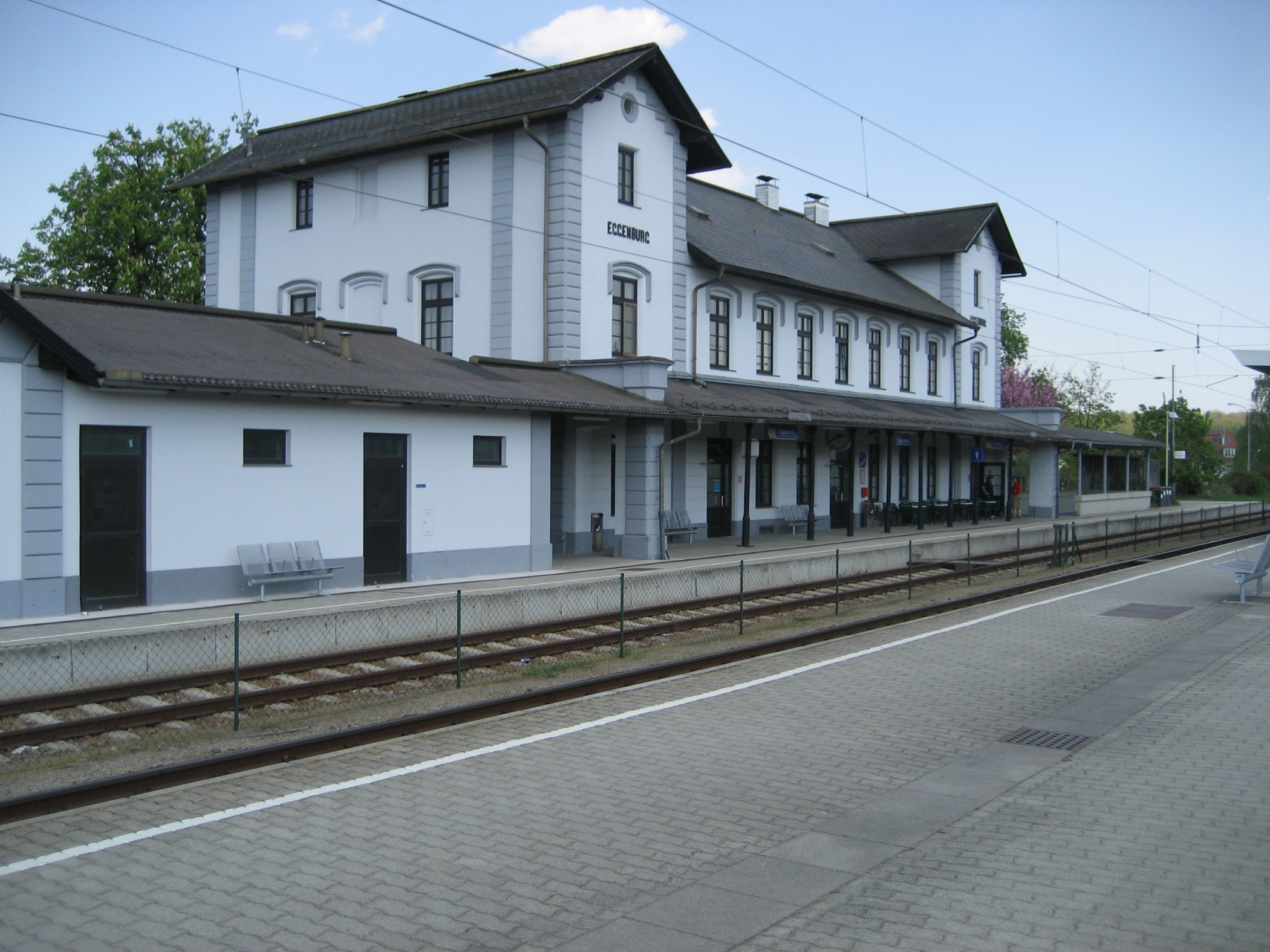 Eggenburg train station in Lower Austria